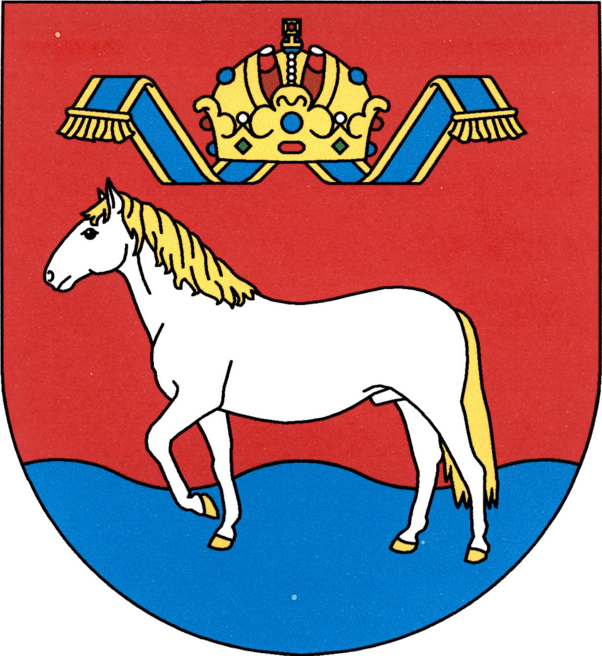 Municipal coat of arms of Kladruby nad Labem village, Parduvbice District, Czech Republic.